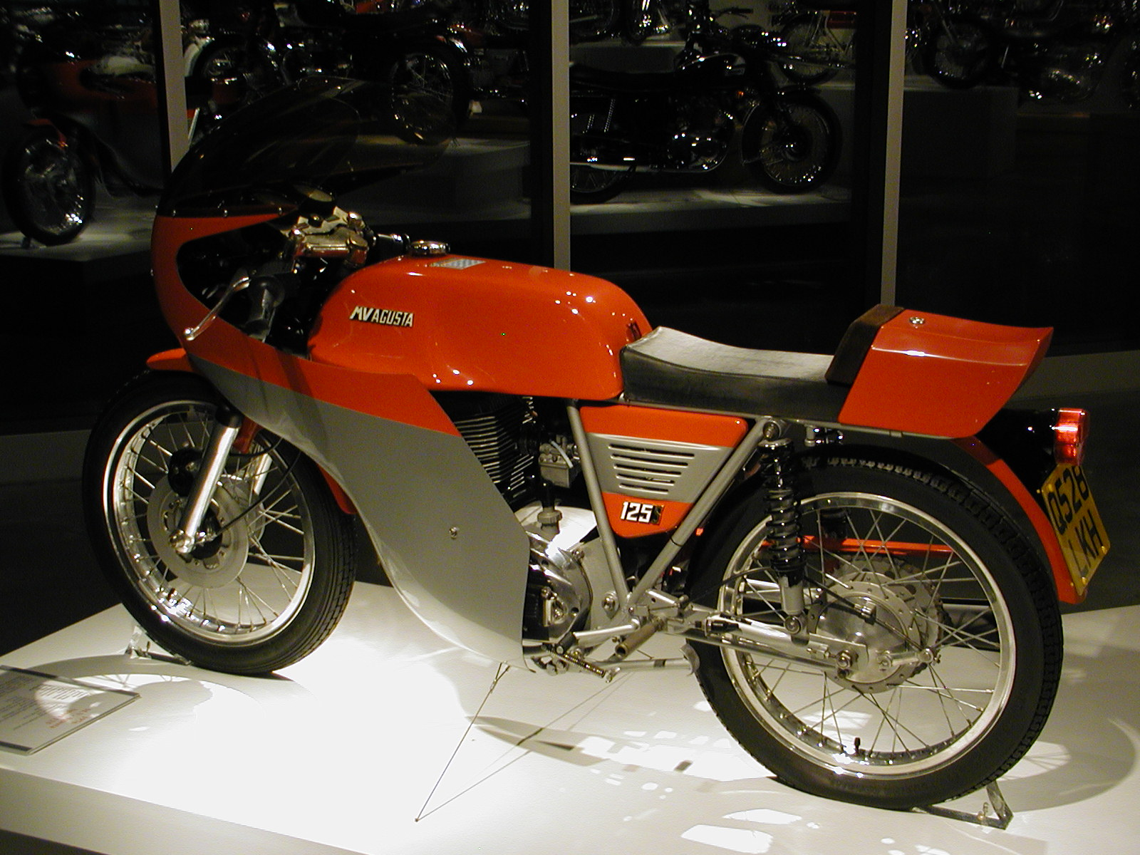 Barber Motorcycle Museum - Oct 22 2006 (134) 1976 MV Agusta Sport125 / More description is here